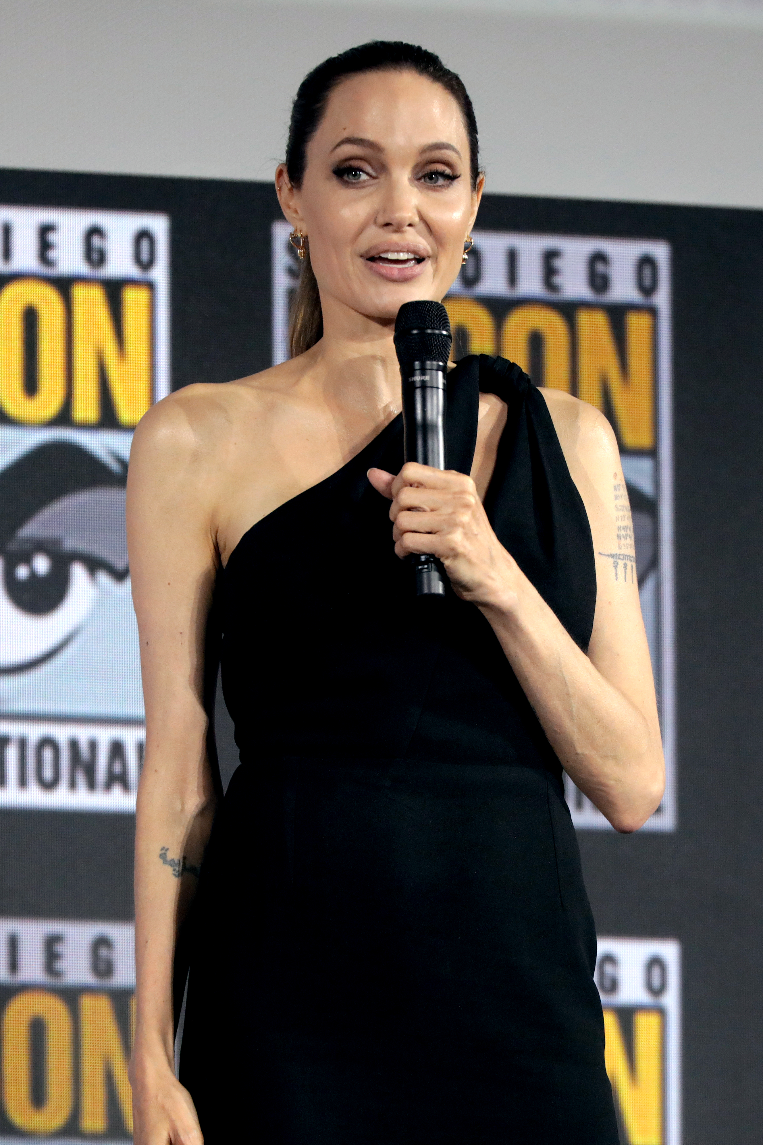 Angelina Jolie speaking at the 2019 San Diego Comic Con International, for "The Eternals", at the San Diego Convention Center in San Diego, California.